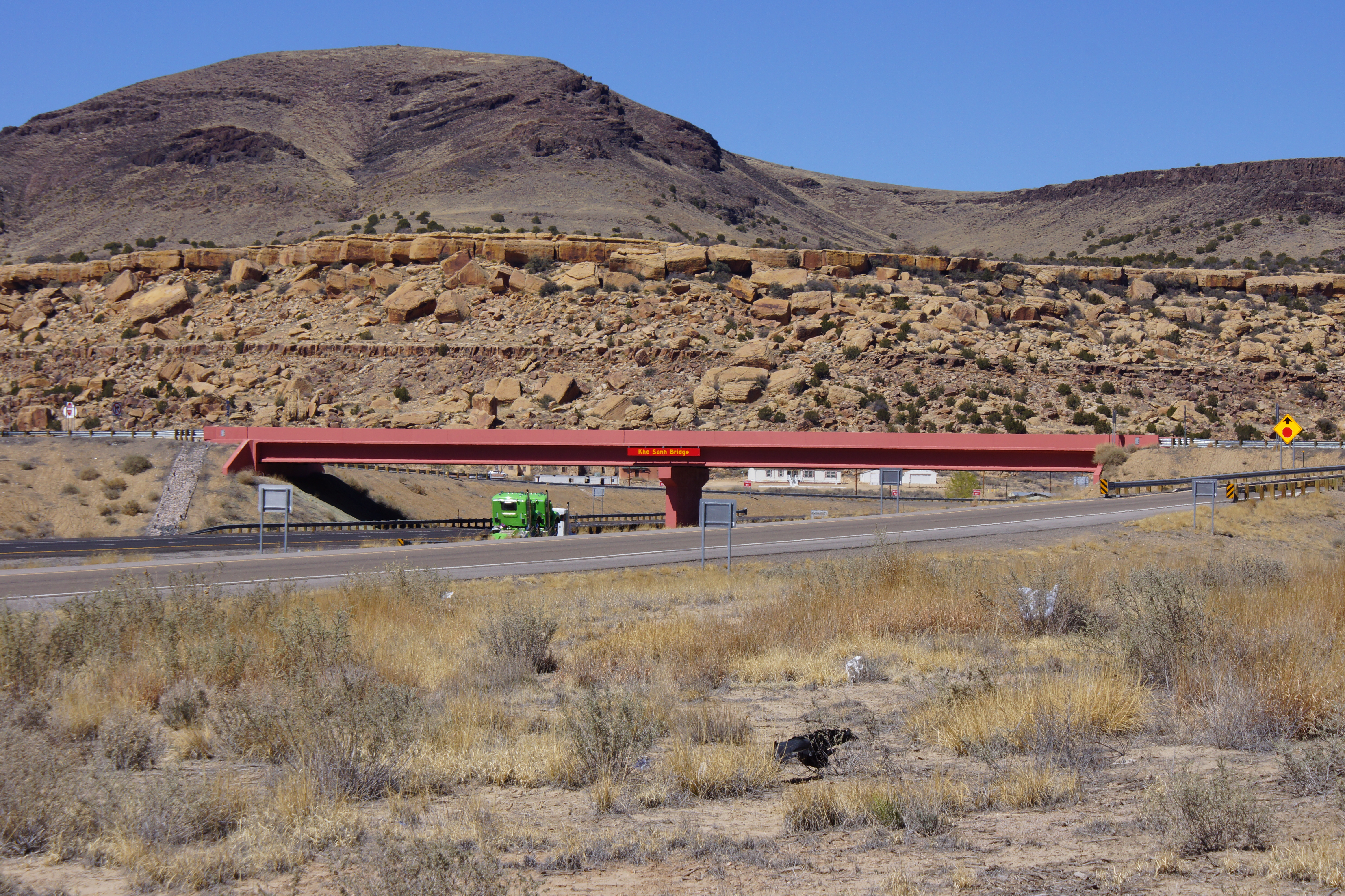 2014, Battle of Khe Sanh Overpass